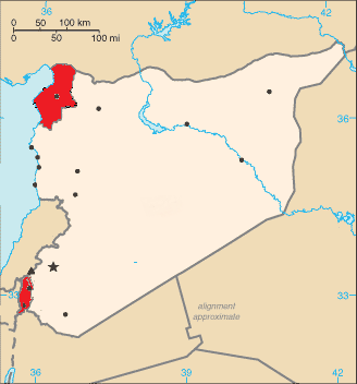 Map of the territorial revendications (in red) of Syria: Golan and Hatay. Map modified from File:Syr map.PNG.